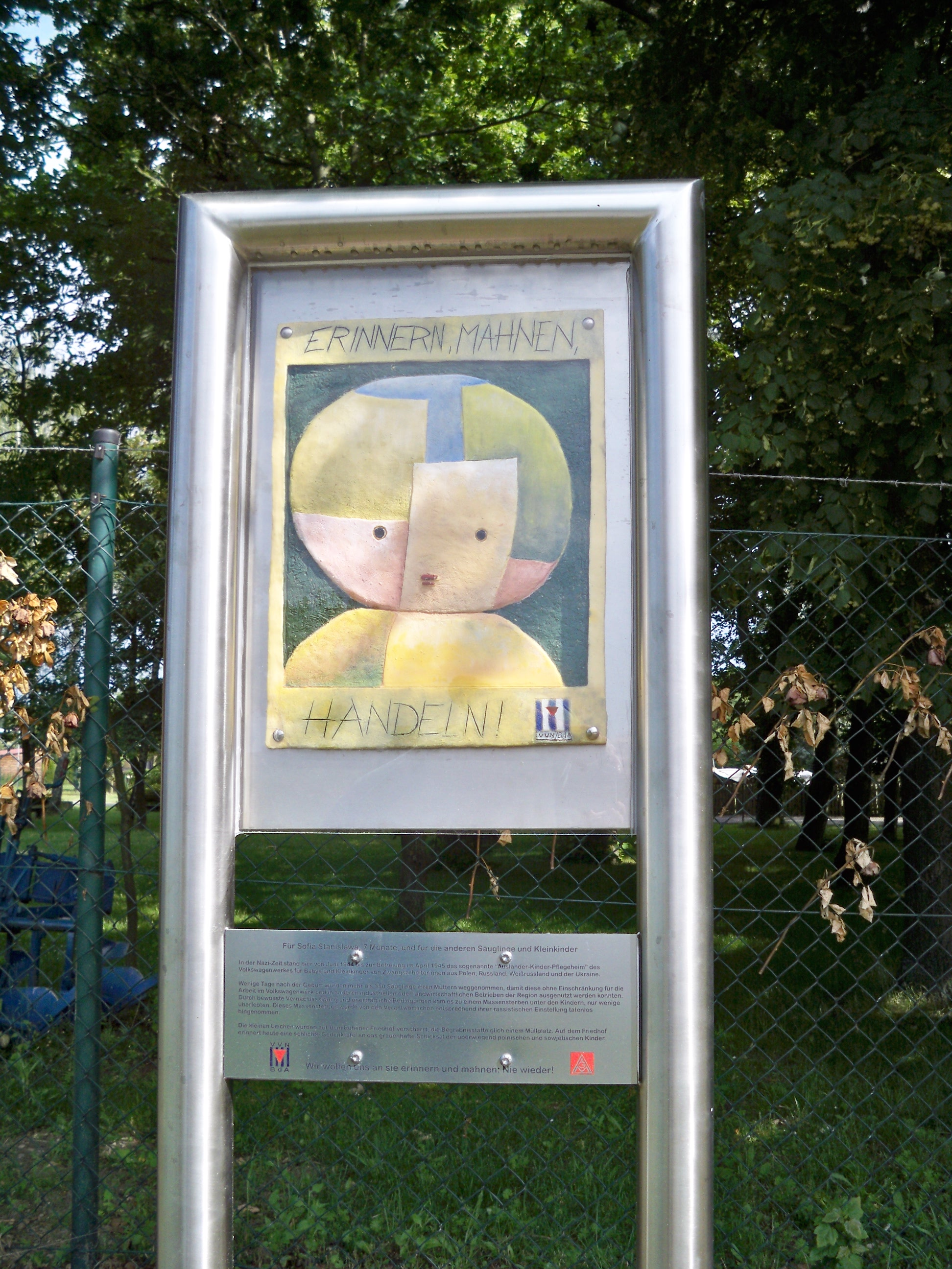 Rühen, Lower Saxony, former "Kinderlager", monument